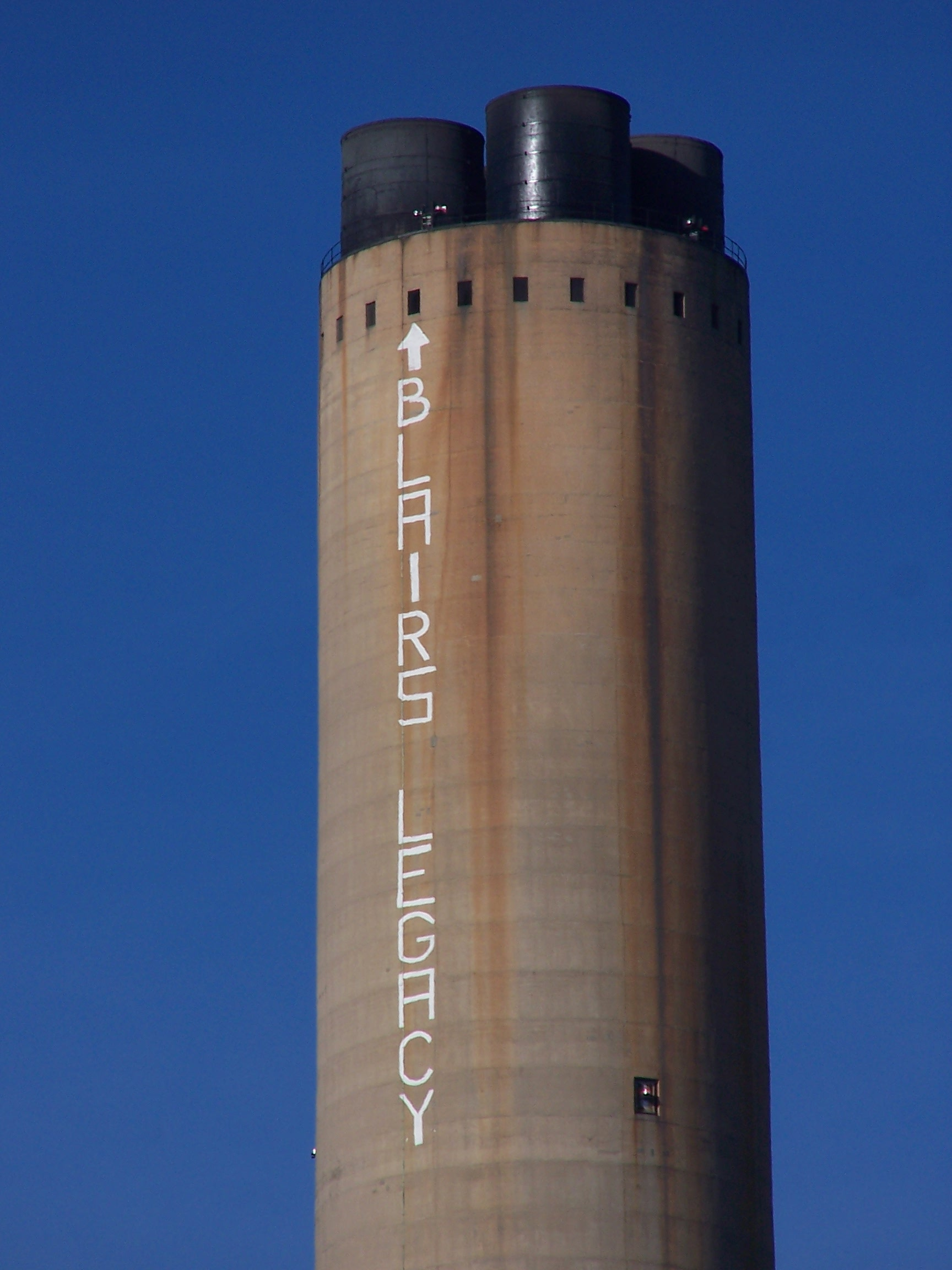 Greenpeace protest at Didcot Power Station, Oxfordshire UK, October 2006. Protestors climbed the main chimney and painted "Blair's Legacy". Taken and uploaded by Dan Huby.